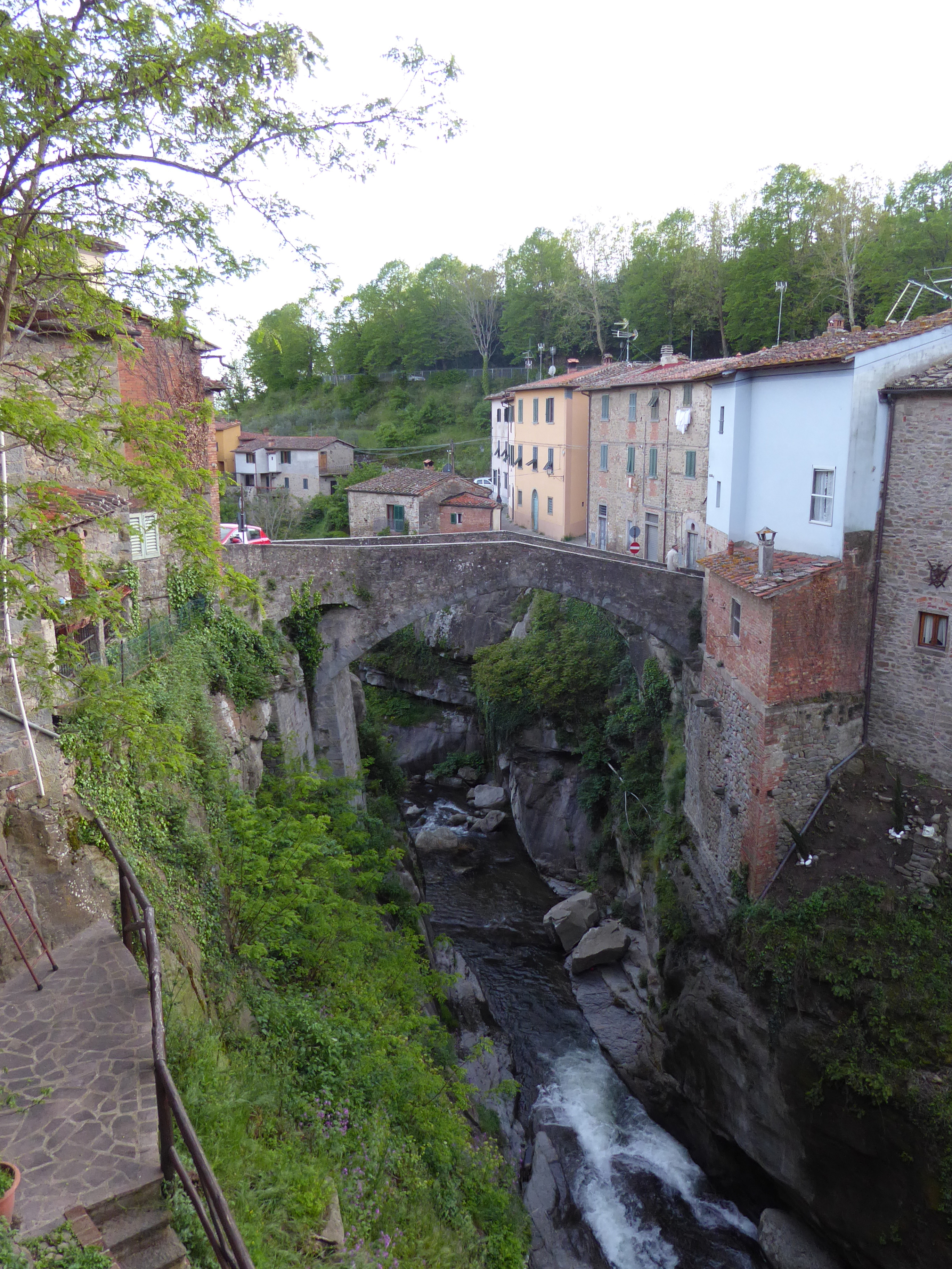 Old bridge in Loro Ciuffenna (Arezzo, Tuscany, Italy)